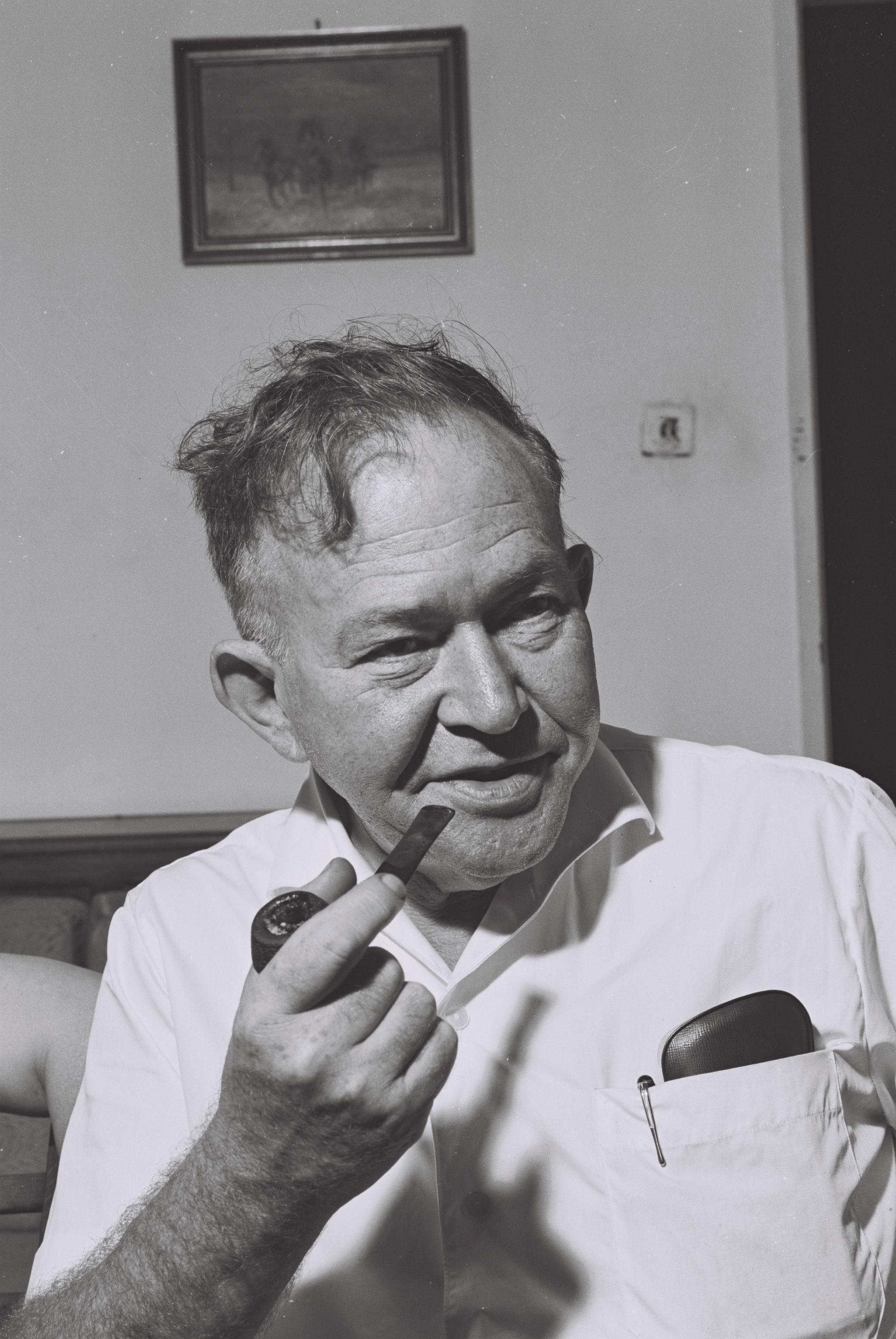 Joel Brand (1906–1964)